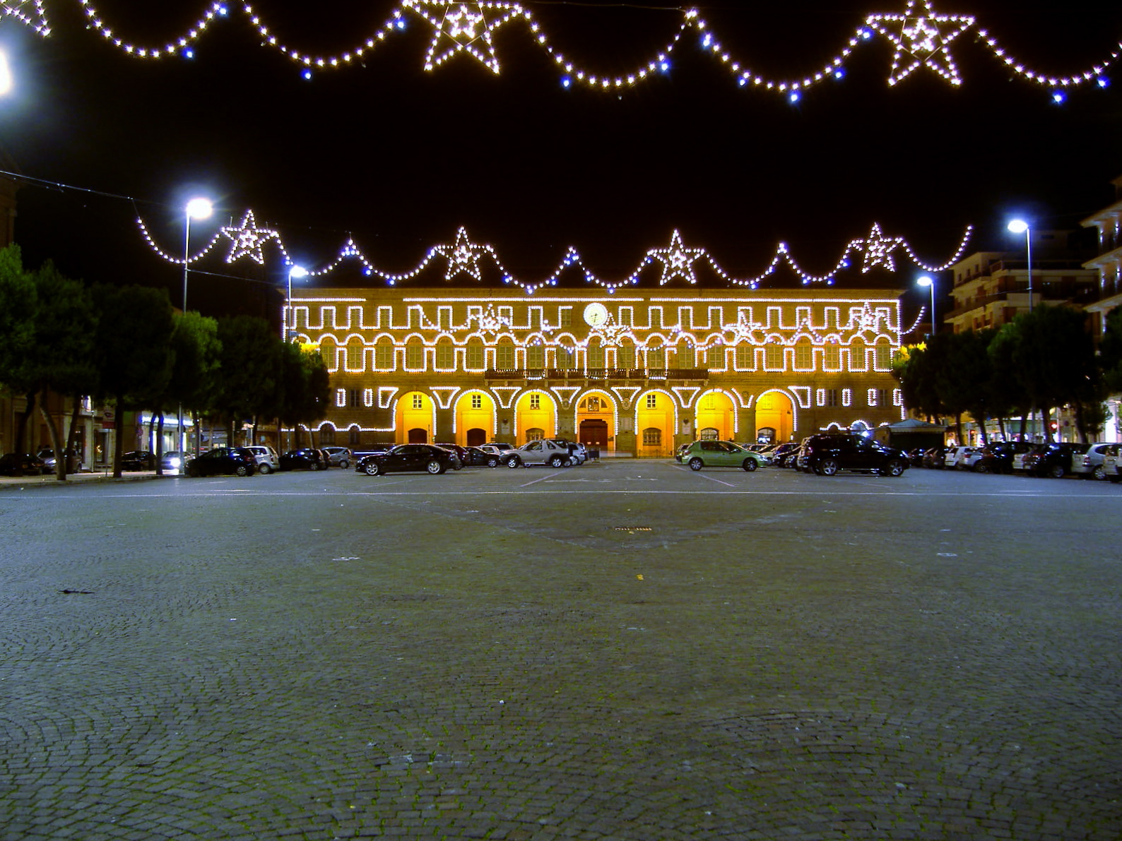 Civitanova Marche city hall, (MC), Marche, Italy